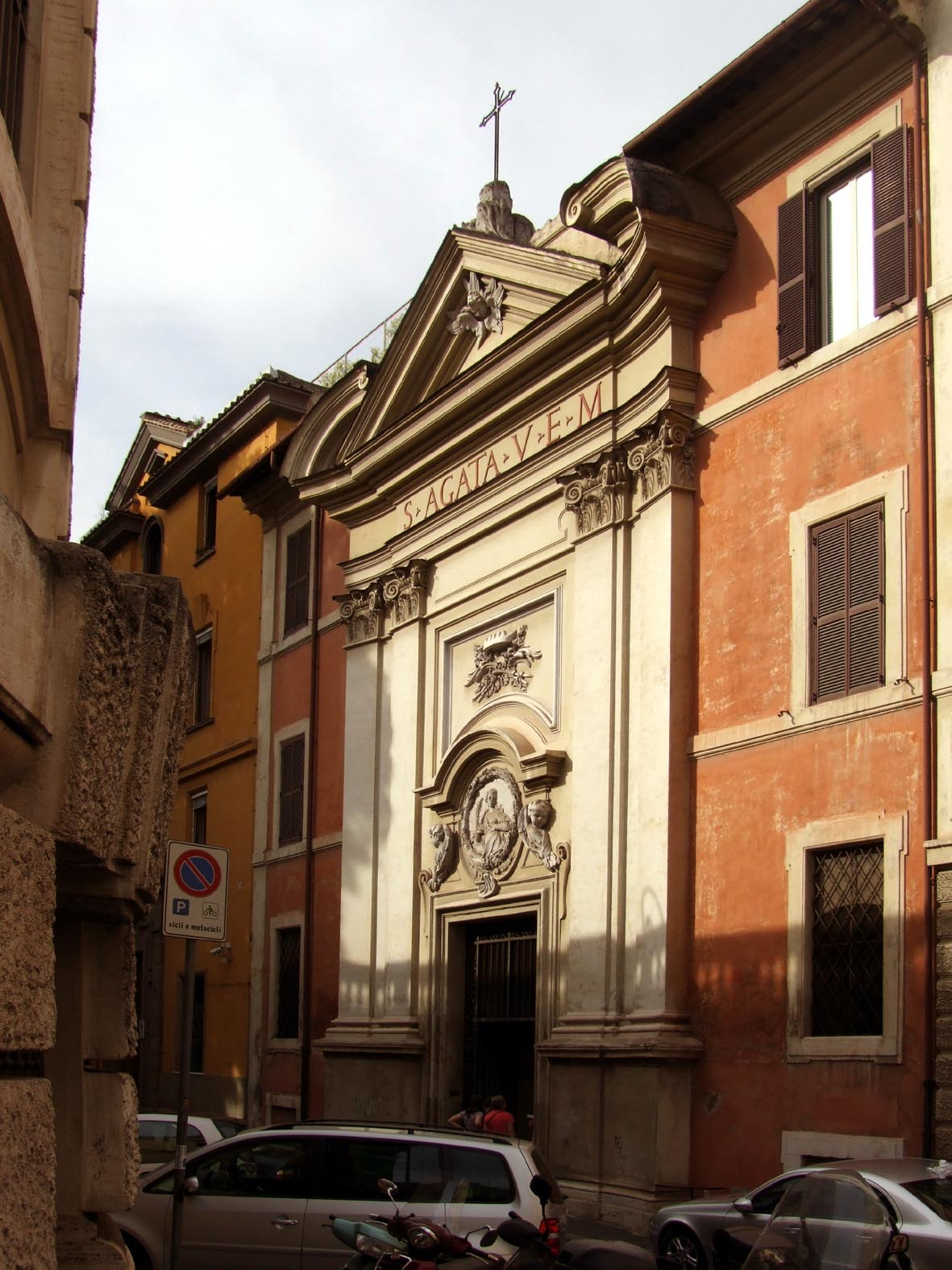 Roma, Sant'Agata dei Goti (rione Monti)